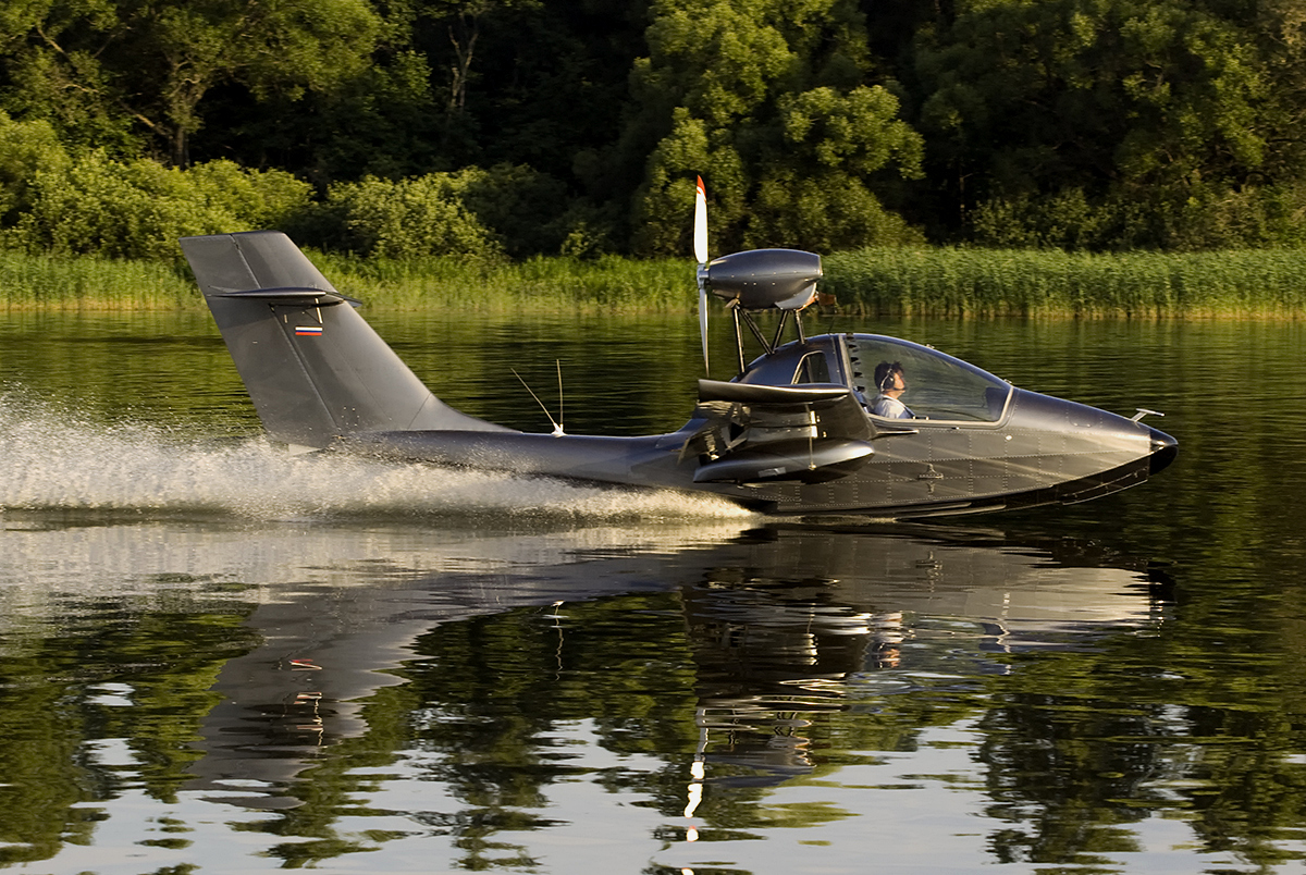 Czech Aircraft Works Mermaid